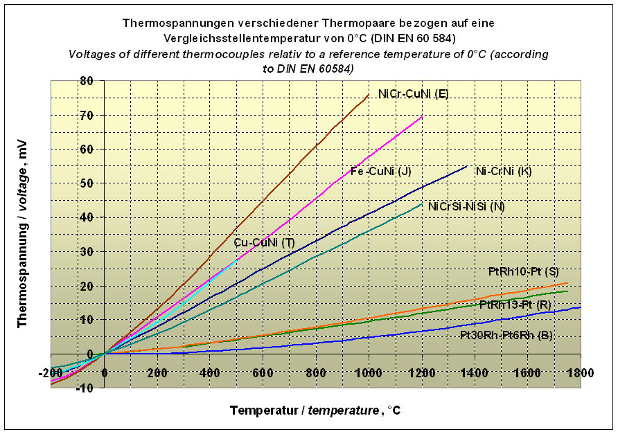 Voltage of different thermocouples relativ to a reference temperature of 0°C according to DIN EN 60 584.